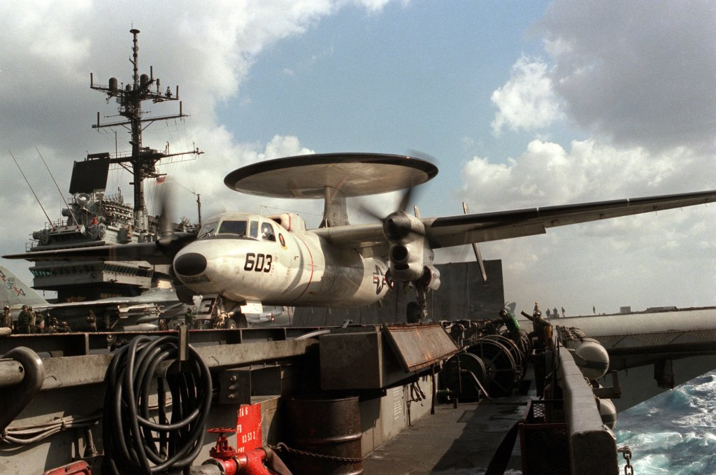 A scene from the catwalk as the twin turboprops of a Grumman E-2C Hawkeye from Airborne Early Warning squadron (VAW) 125 "Tigertails" develop full power immediately prior to a catapult launch from the aircraft carrier USS Saratoga (CV-60) in the Mediterranean, 28 January 1986.